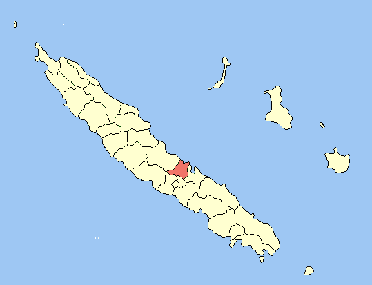 Created map myself.